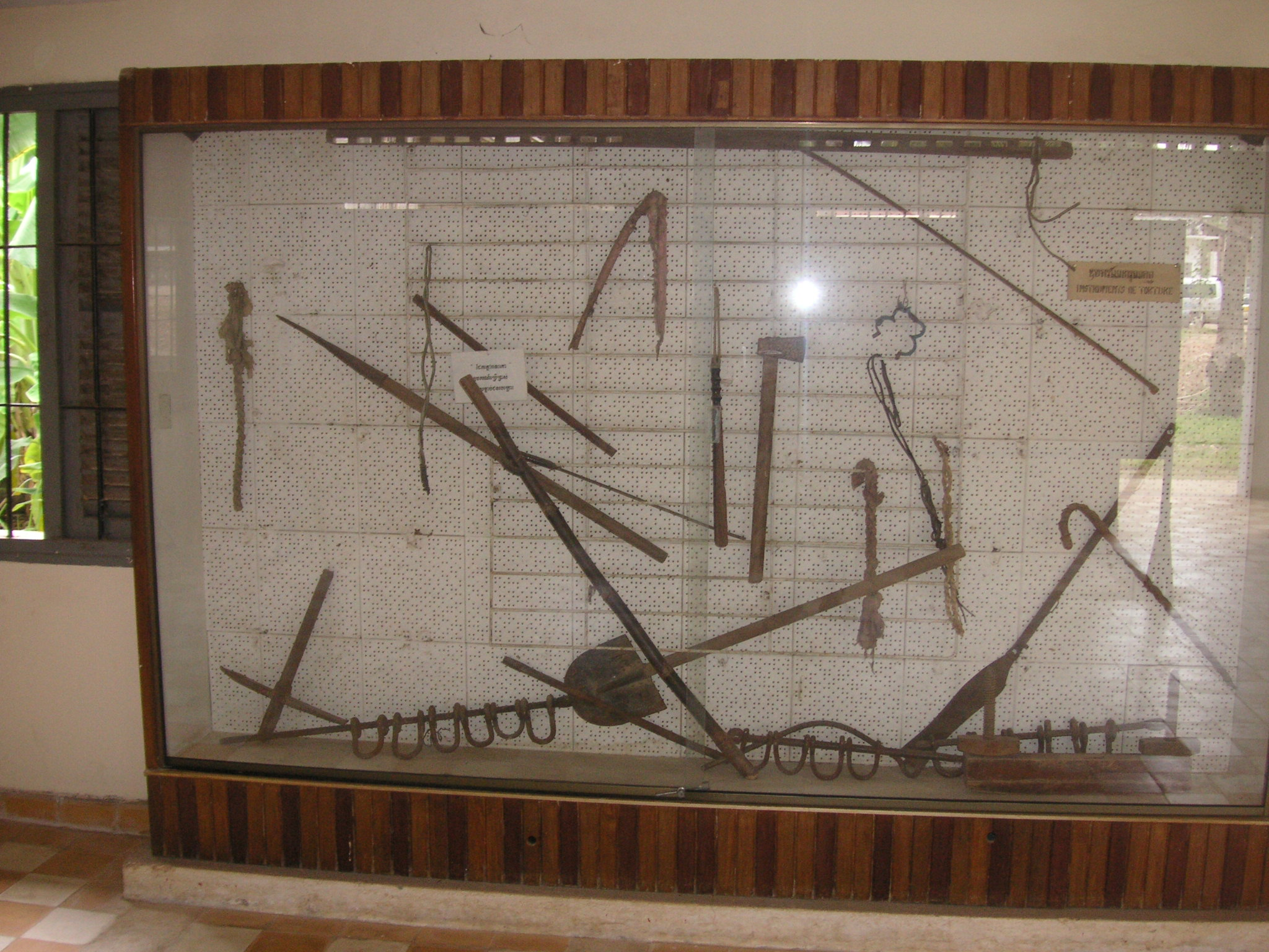 Torture instruments for interrogations in the Tuol Sleng Museum.